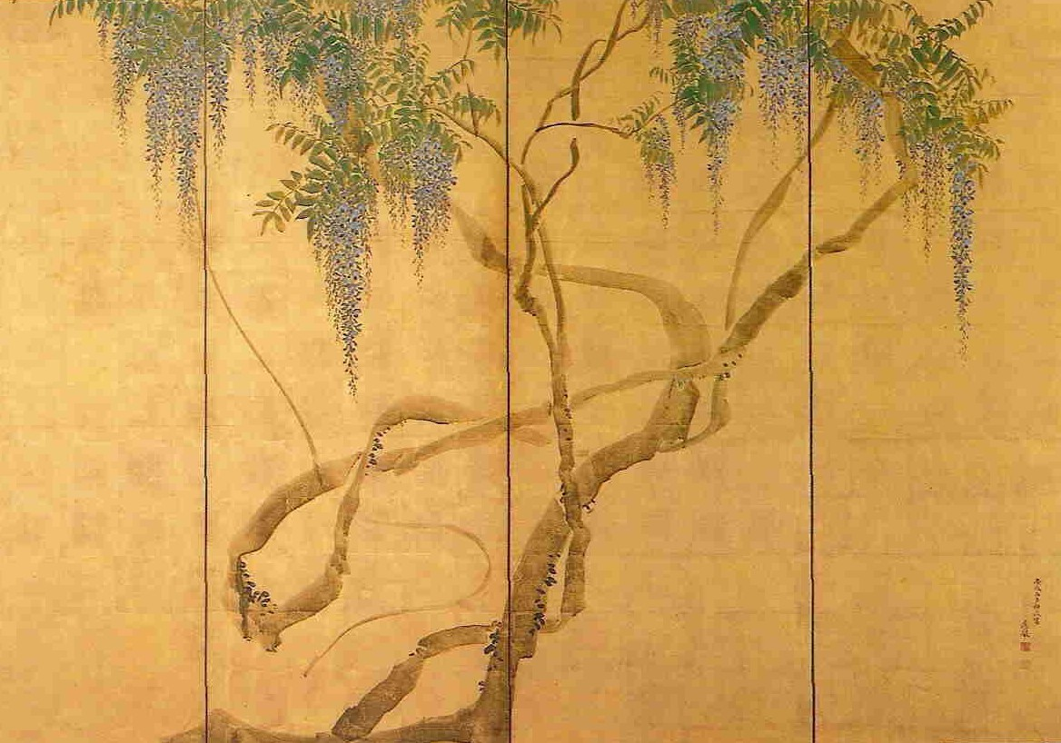 Maruyama Okyo: Wisteria right folding screen (detail)